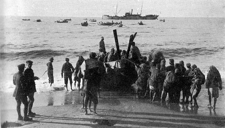 Egyptian Labour Corps landing stores near Gaza during World War I